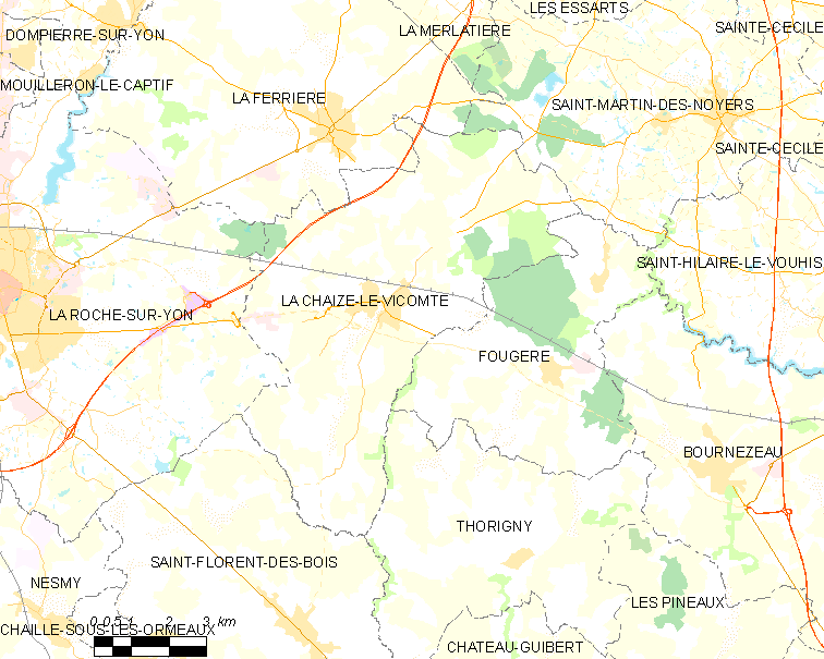 Map of French municipality La Chaize-le-Vicomte